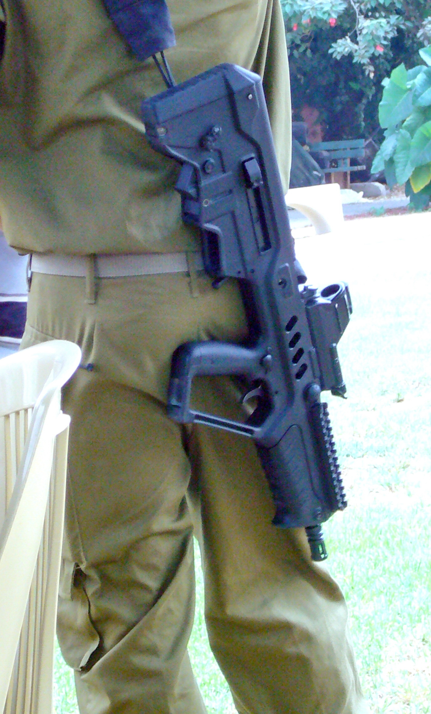 Israeli soldier with compact Tavor assault rifle.